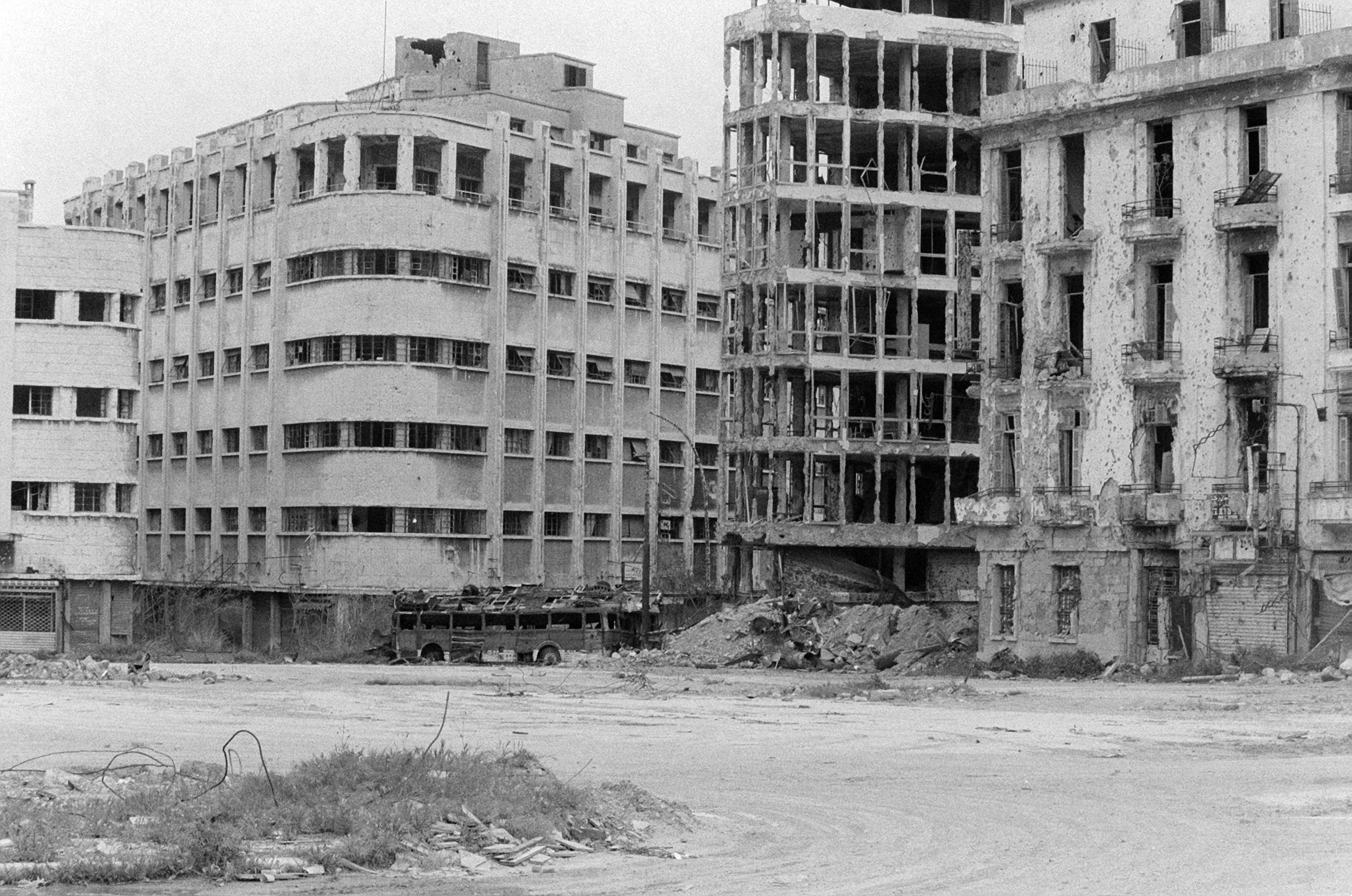 A view of a shell-damaged building in Beirut. Buildings throughout the city have been the targets of terrorist attacks during the ongoing confrontation between Israeli forces and the Palestine Liberation Organization.